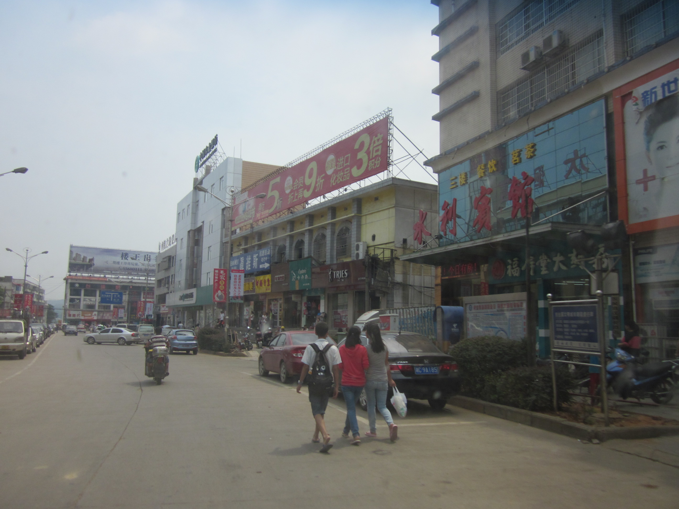 Shaoshan (Chinese: 韶山; pinyin: Sháoshān) is a county-level city in Xiangtan, Hunan Province, noted as the birthplace of Mao Zedong, founder of the People's Republic of China.